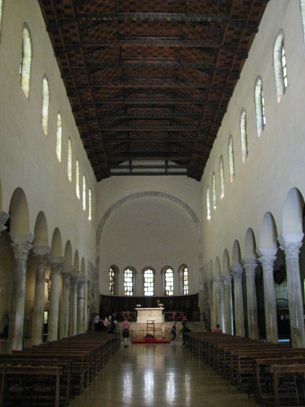 Basilica di San Francesco in Ravenna